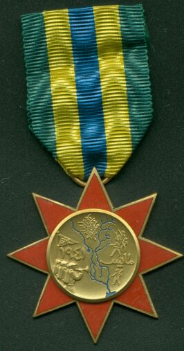 May movement medal (1973 medal given to defenders of the pro-Nazi Rashid Ali Al-Gaylani coup).